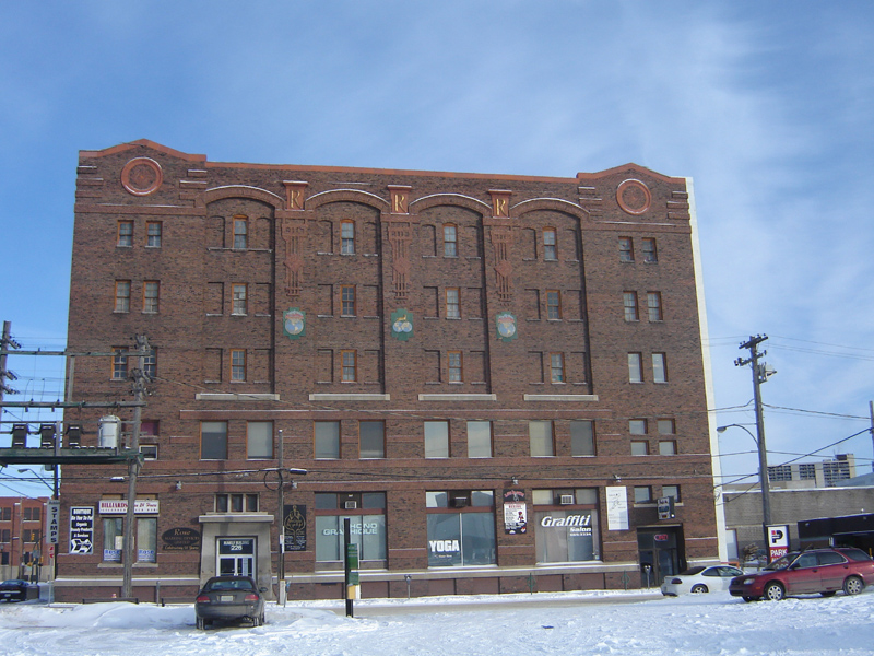 Municipal Heritage Properties: Rumley Warehouse 1913Central Business District , Core Neighbourhoods SDA, Saskatoon, Saskatchewan, Canada